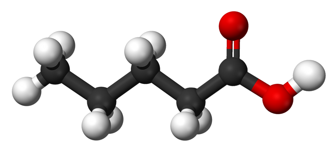 Valeric acid molecule model